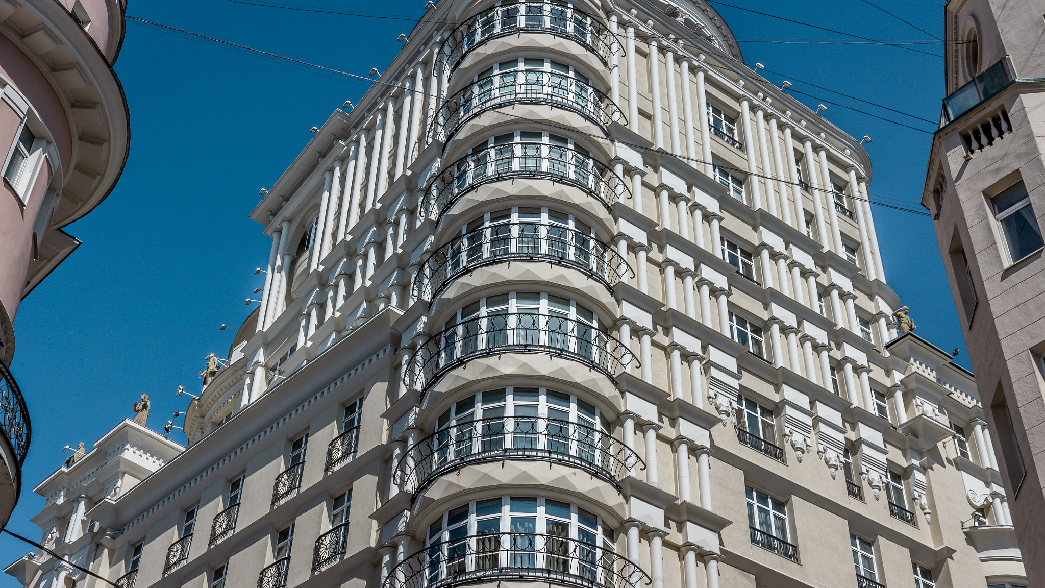 The Patriarch Building, Moscow (2002, architects: Sergey Tkachenko and co.) // 500px provided description: Building [#city ,#moscow ,#architecture ,#building]